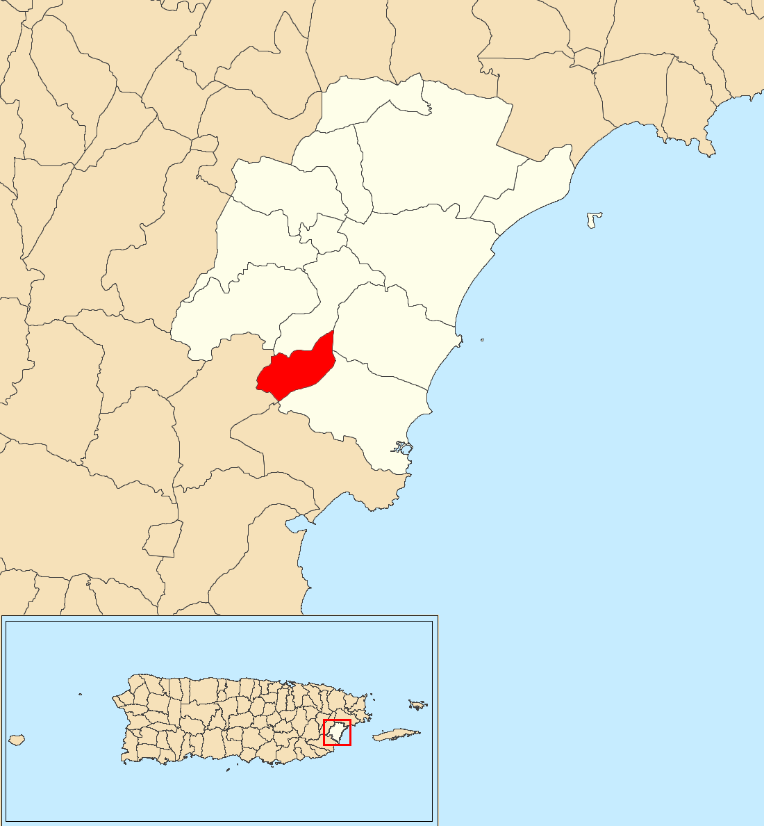 Candelero Arriba, Humacao, Puerto Rico locator map